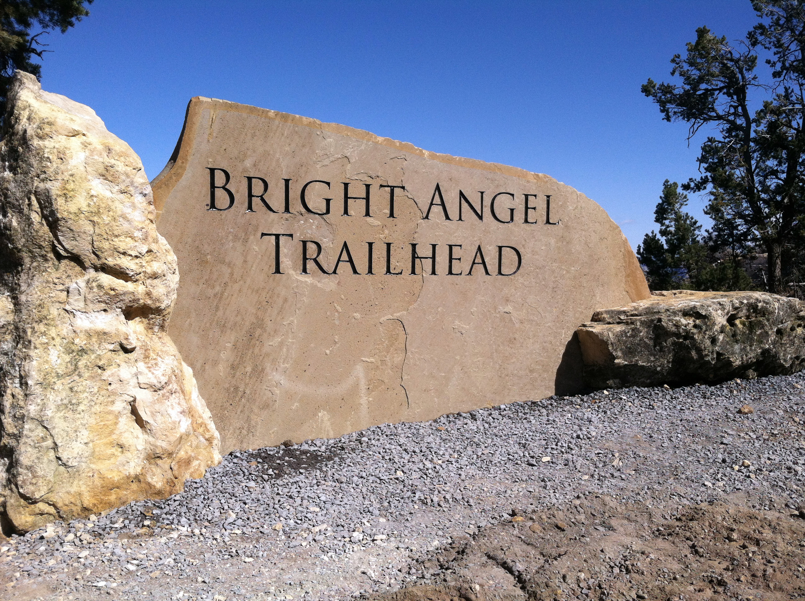 Bright Angel Trail sign — at start on the Grand Canyon South Rim, Arizona. The sign consists of a 9’x5’x12” sandstone slab weighing approximately 3 tons with two ‘bookend’ boulders on either side. Each of the bookend boulders was sawn and chiseled to create a slot to help support the slab vertically. The boulder on the east side also serves as a bench. The sign is also supported by a concrete foundation. “Bright Angel Trailhead” is sandblasted into the slab. It’s sited to capture a background view of the canyon, and has space behind for hikers to pose for a photo op. The ID sign was created by Chevo Studios. NPS photo by Vicky Stinson. The trailhead rehabilitation project began on September 4, 2012. The area will be under construction through April 2013 and will be officially dedicated on May 18, 2013. Work includes: a 90 car paved parking lot around the Bright Angel Lodge cabins; new restrooms and a meeting plaza with shade structures; and burial of utilities; an ADA (Americans with Disabilities Act) accessible Rim Trail connection between the Hermits Rest Route Transfer shuttle bus stop and the Kolb Studio; reconstruction of stone masonry retaining walls near the Kolb Studio and near the southwest trailhead of the Bright Angel Trail.